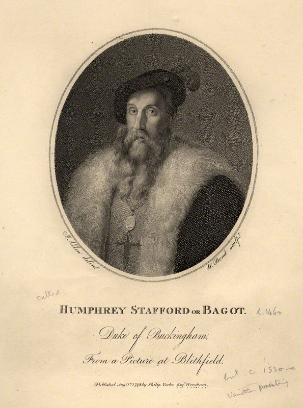 Stipple engraving of Humphrey Stafford, 1st Duke of Buckingham by William Bond, published by Philip Yorke, after Joseph Allen